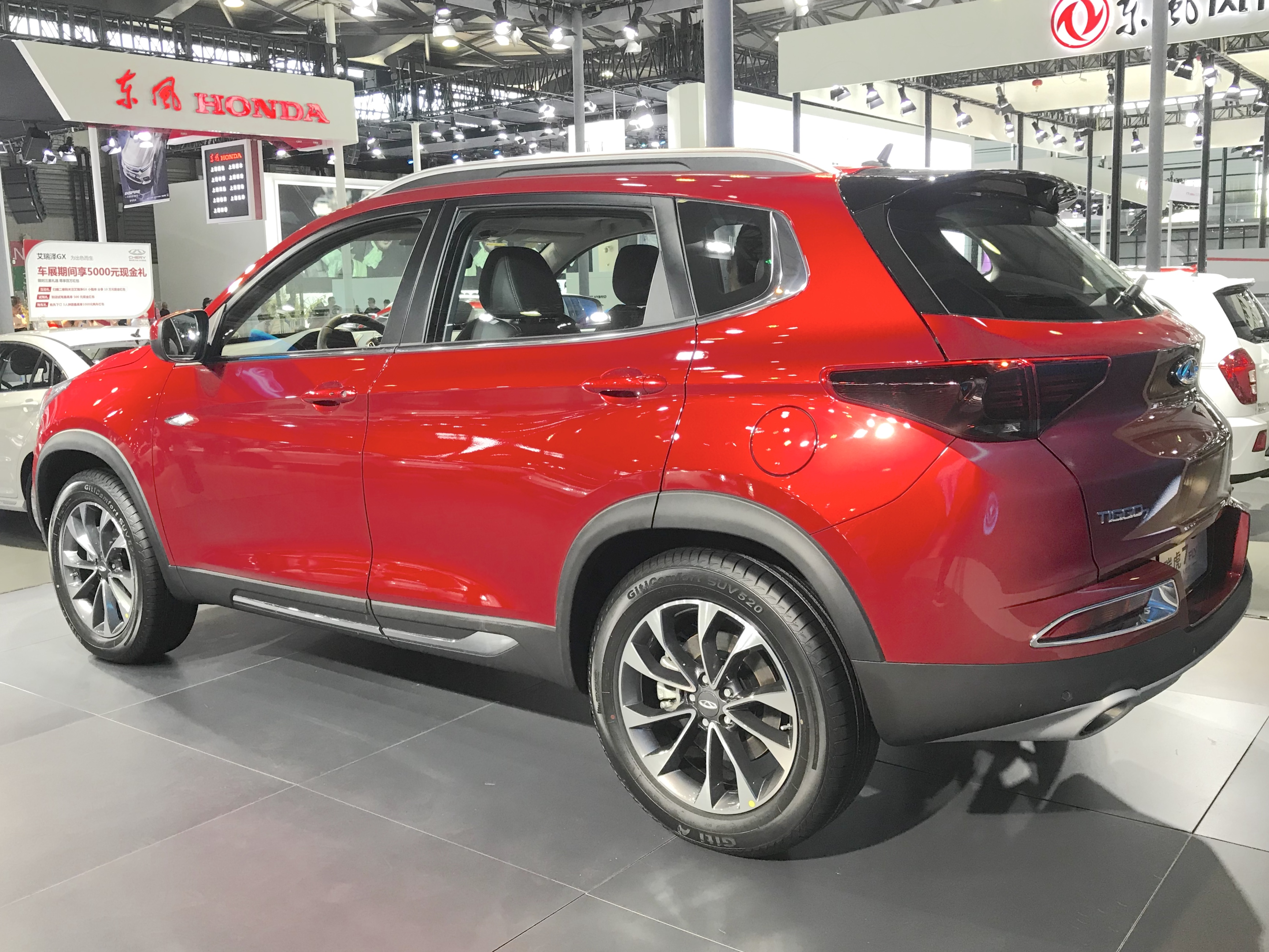 Chery Tiggo 7 Fly rear